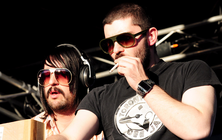 Parklife Festival 2009